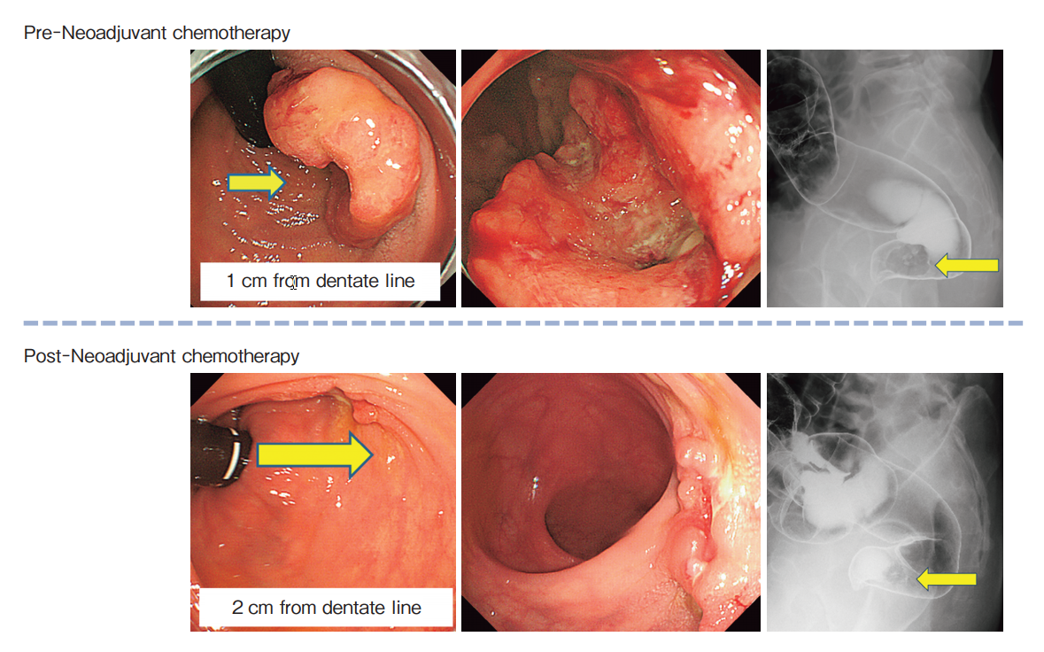 Figure-2 A case with locallyadvanced rectal cancer treated with neoadjuvant chemotherapywith an oxaliplatin-based regimen Tumor reduction of 30% and a longer distance on the anal side without severe adverse events were achieved after this treatment. Consequently, laparoscopic curative resection with anal preservation was achieved because of effective chemotherapy before surgery. Pre-treatment findings: T3 N1 M0 cStage IIIa, XELOX therapy: 4 courses, Operation: Laparoscopic intersphincter resection+ bilateral lymph node dissection, Pathological findings: tub2 ypT1b/SM ly0 v0 N0 (0/25) ypStageⅠ 6), Pathological response: Grade 1b 6) (Watanabe T, Muro K, et al: Int J Clin Oncol, 2018; 23: 1-34 6))